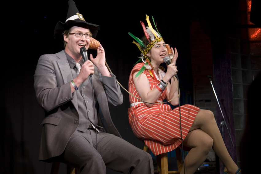 SXSW Comedy Fest 2010 Esther's Follies, The Velveeta Room, Austin Texas.